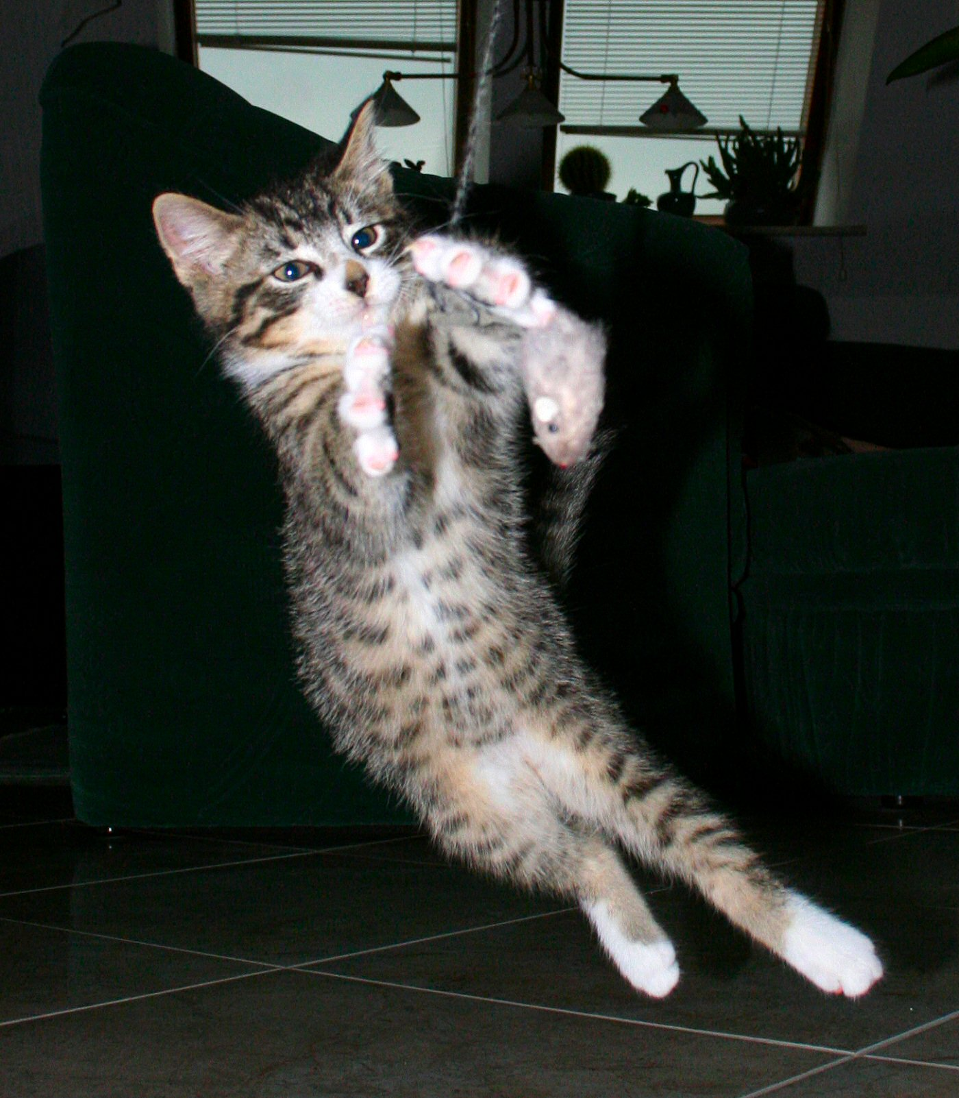 playing little cat